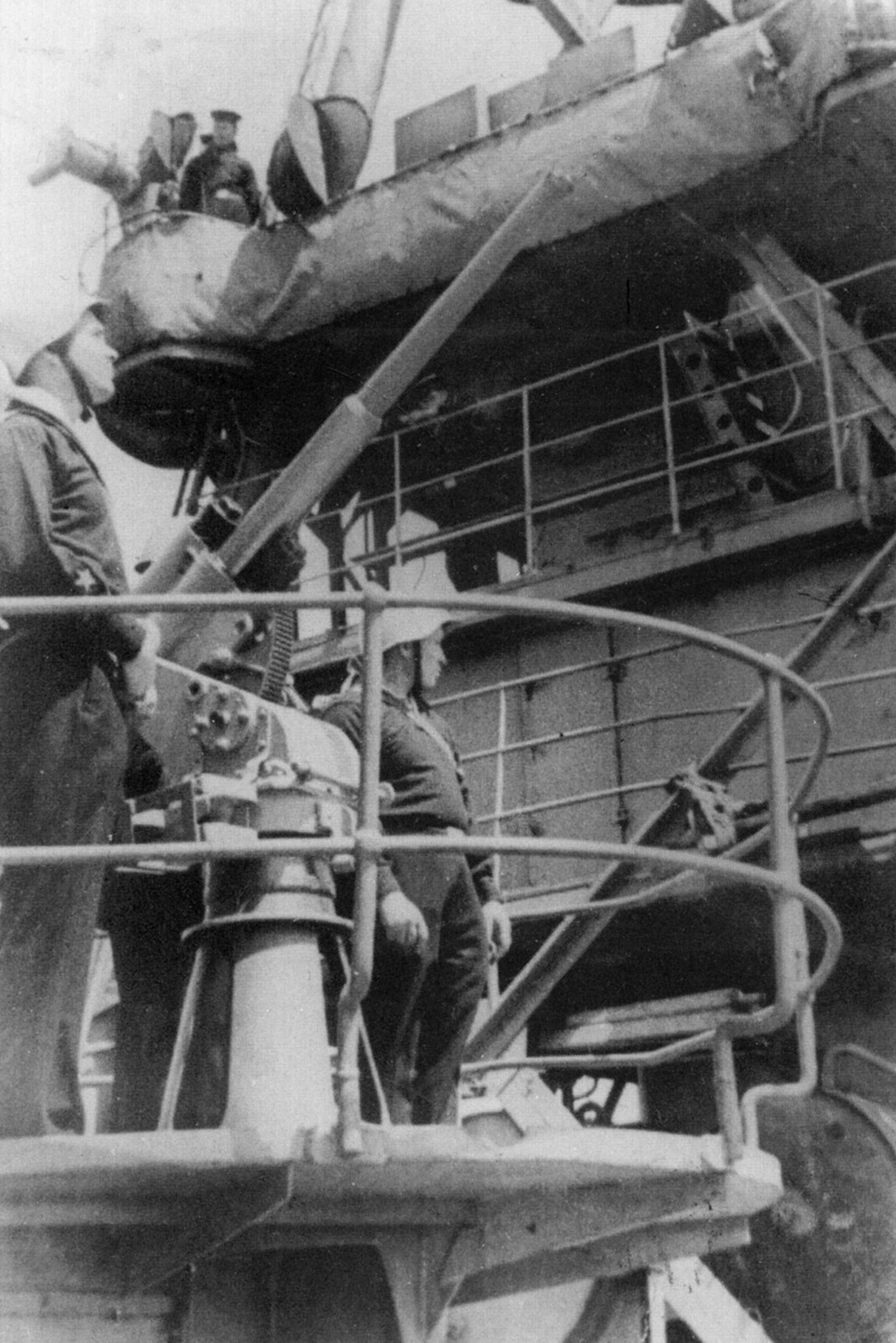 Soviet 45 mm anti-air gun 21-K on cruiser Krasnyy Kavkaz.